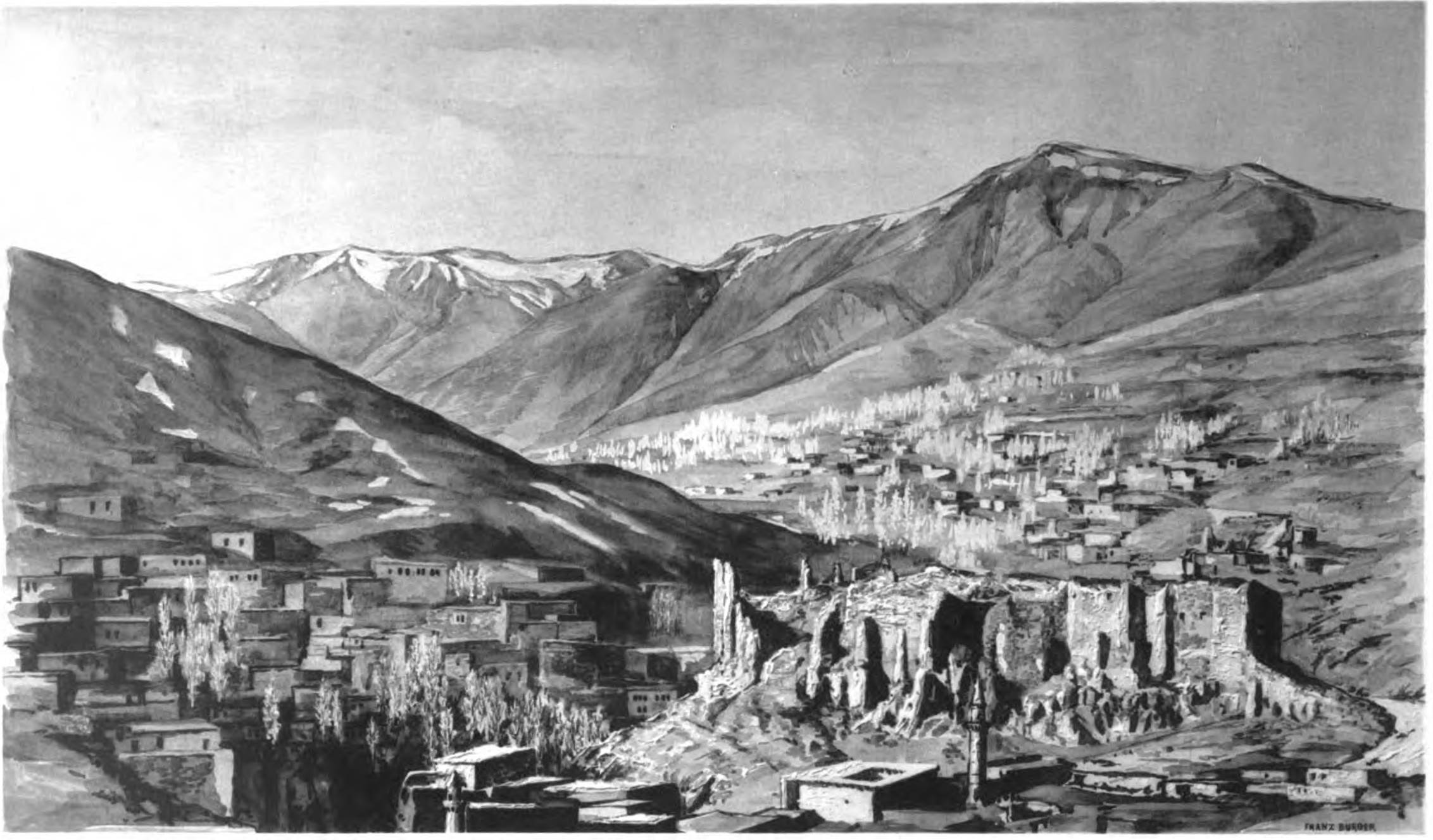 Extracted picture from page 421 of the source book; picture caption: „BITLIS.“